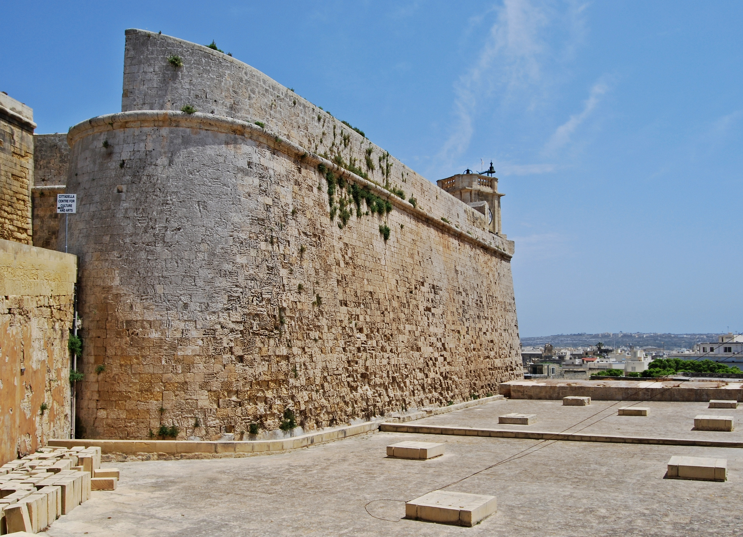 Part of Citadella in the centre of the city of Victoria, Gozo.